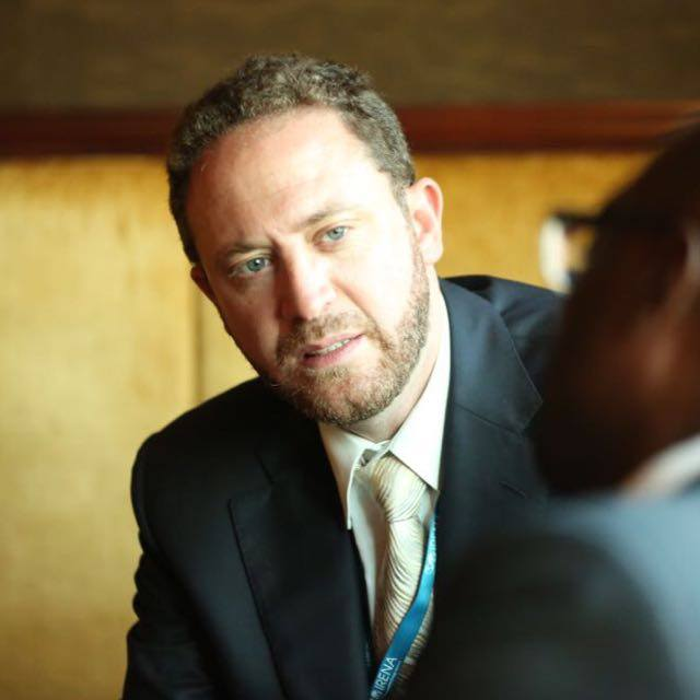 Person listening to another one